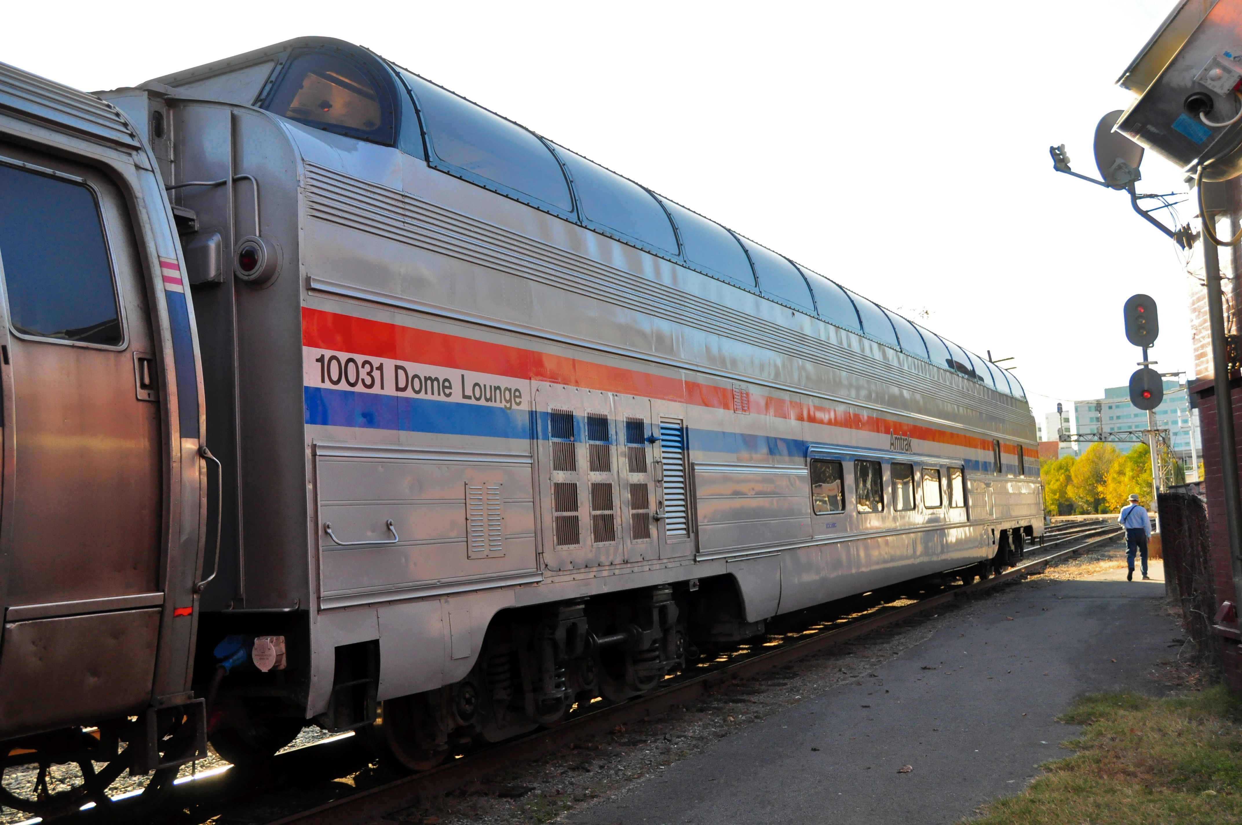 Dome_Trip_090